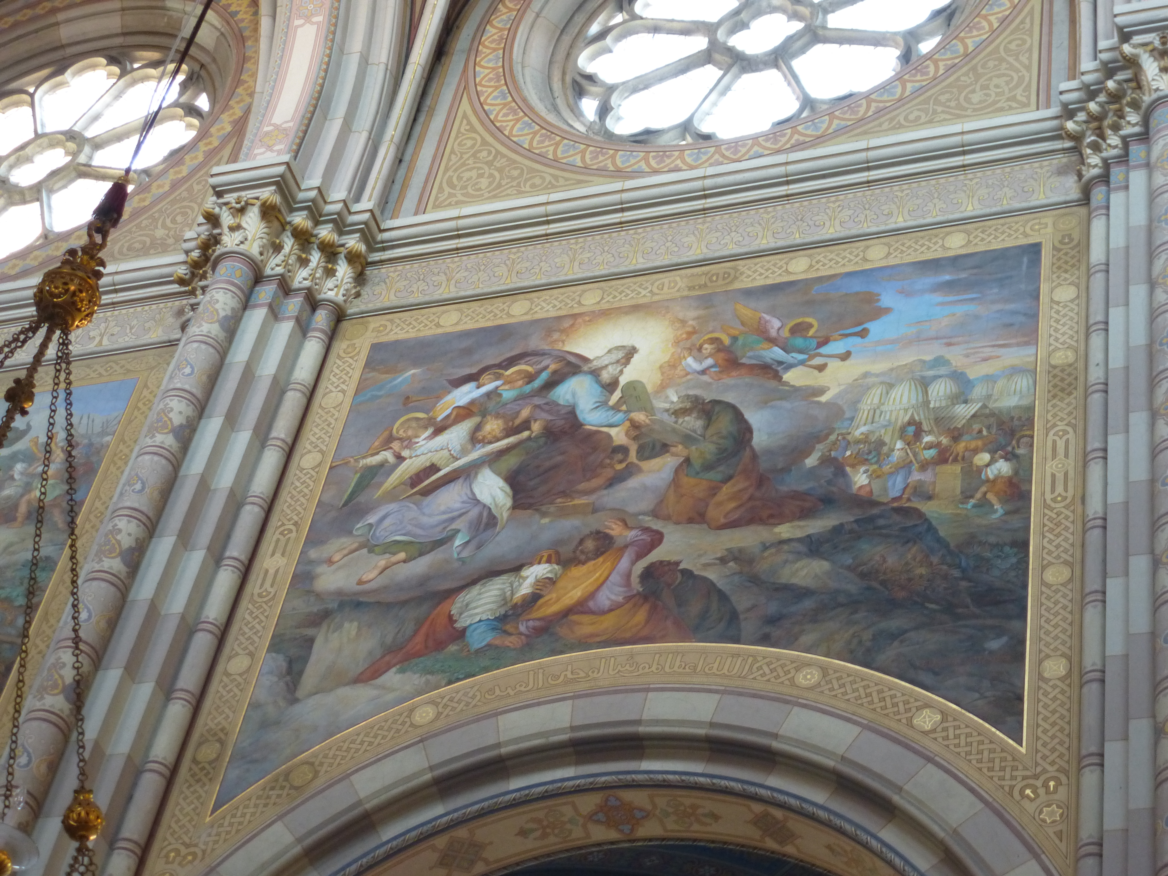 Painting in Đakovo Cathedral with Arabic writing below